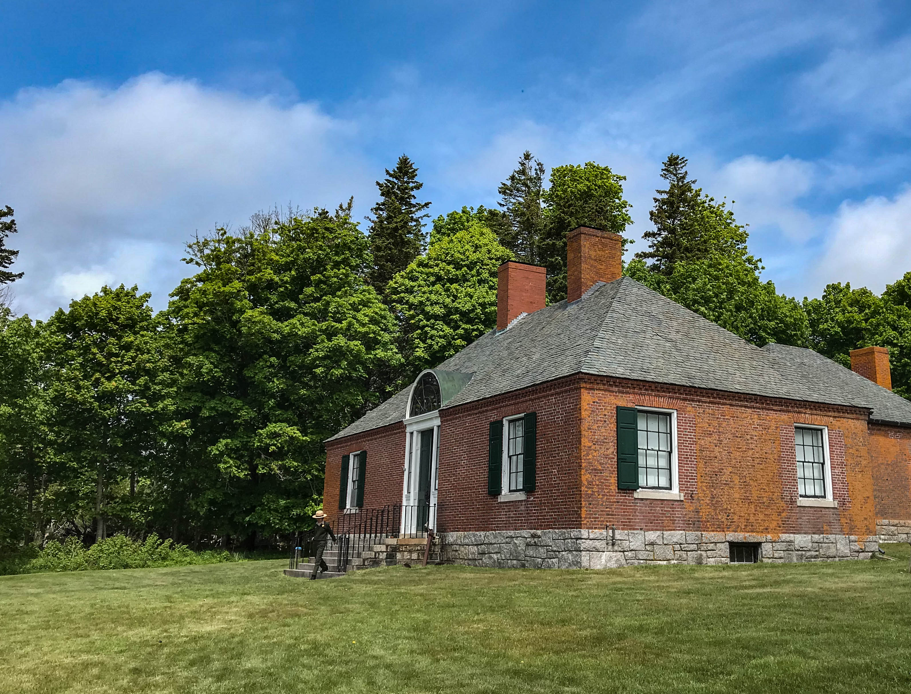 Ranger walking out of a historic brick building Acadia National Park, Maine Keywords: Acadia National Park; Acadia; ACAD; Maine; ranger